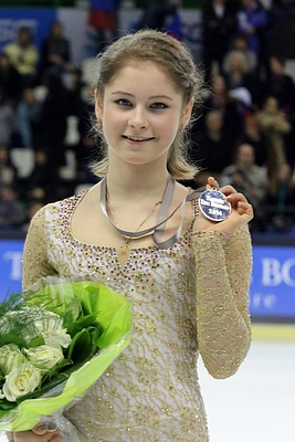 Yuliya Lipnitsкaya at the Trophee Eric Bompard 2014